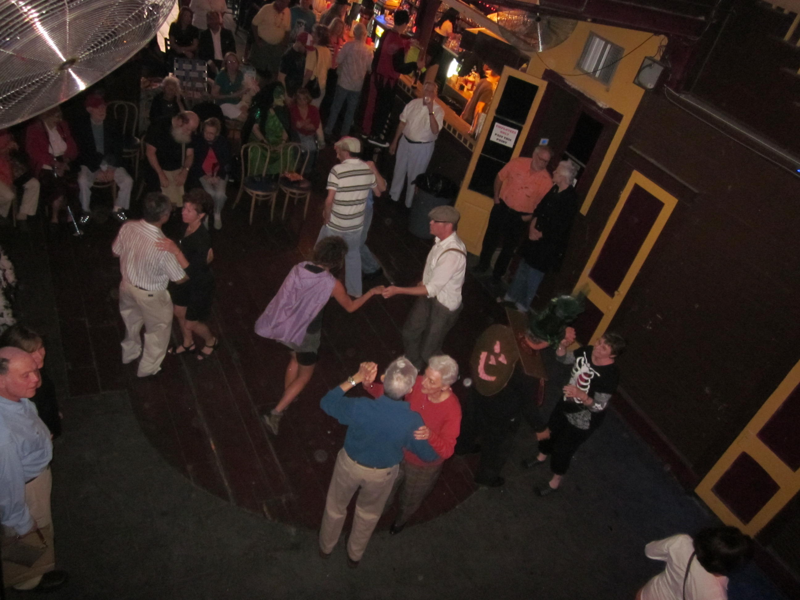 New Orleans. Halloween "Nickle a Dance" Concert at the Maison on Frenchmen Street, featuring Lionel Ferbos Jazz Band.